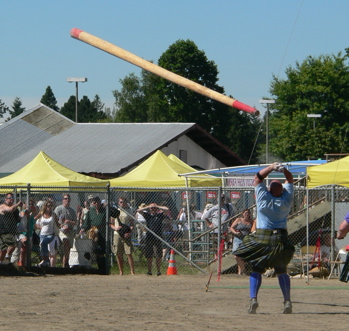 The caber toss event at the 2005 Pacific Northwest Highland Games. The implement is shown in mid-flight just after it has been released by the competitor.